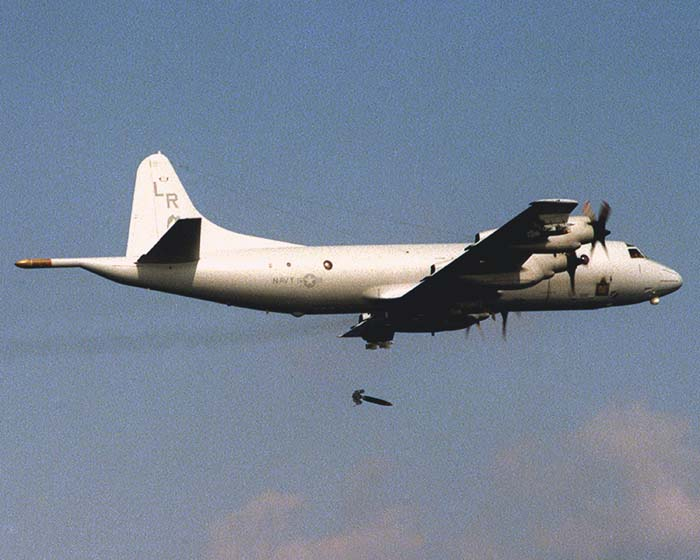 Repository: San Diego Air and Space Museum Archive